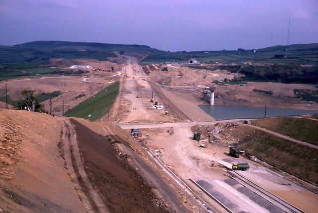 Scammonden Dam